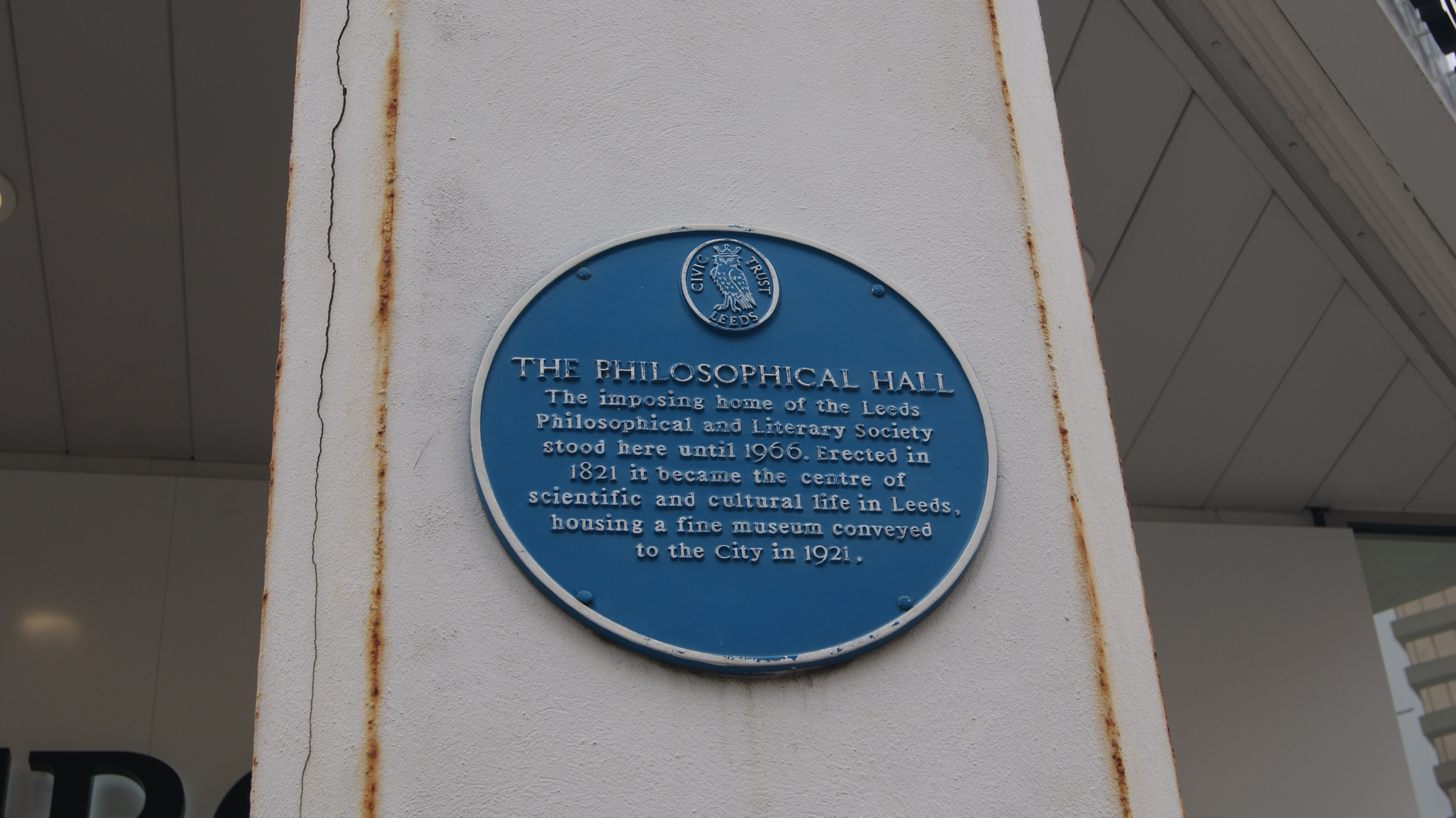 Blue plaque, HSBC, Park Row, Leeds, West Yorkshire. Taken on the afternoon of Friday the 25th of August 2017.